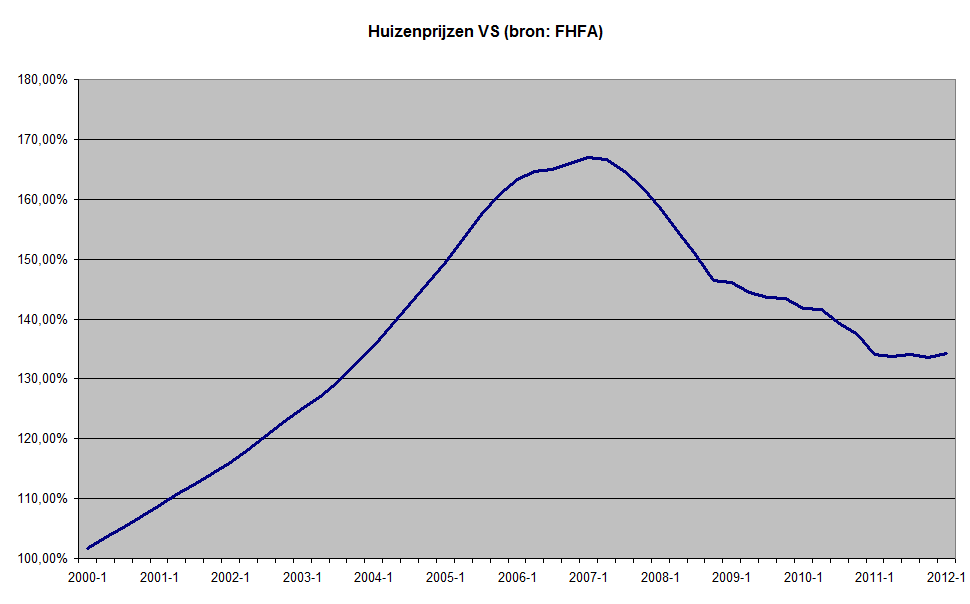 Development of house prices in the U.S., data from Federal Housing Finance Agency (formerly Office of Federal Housing Enterprice Oversight) website, seasonally adjusted purchase-only prices, quarterly data, end of 1999 = 100%, used on Kredietcrisis